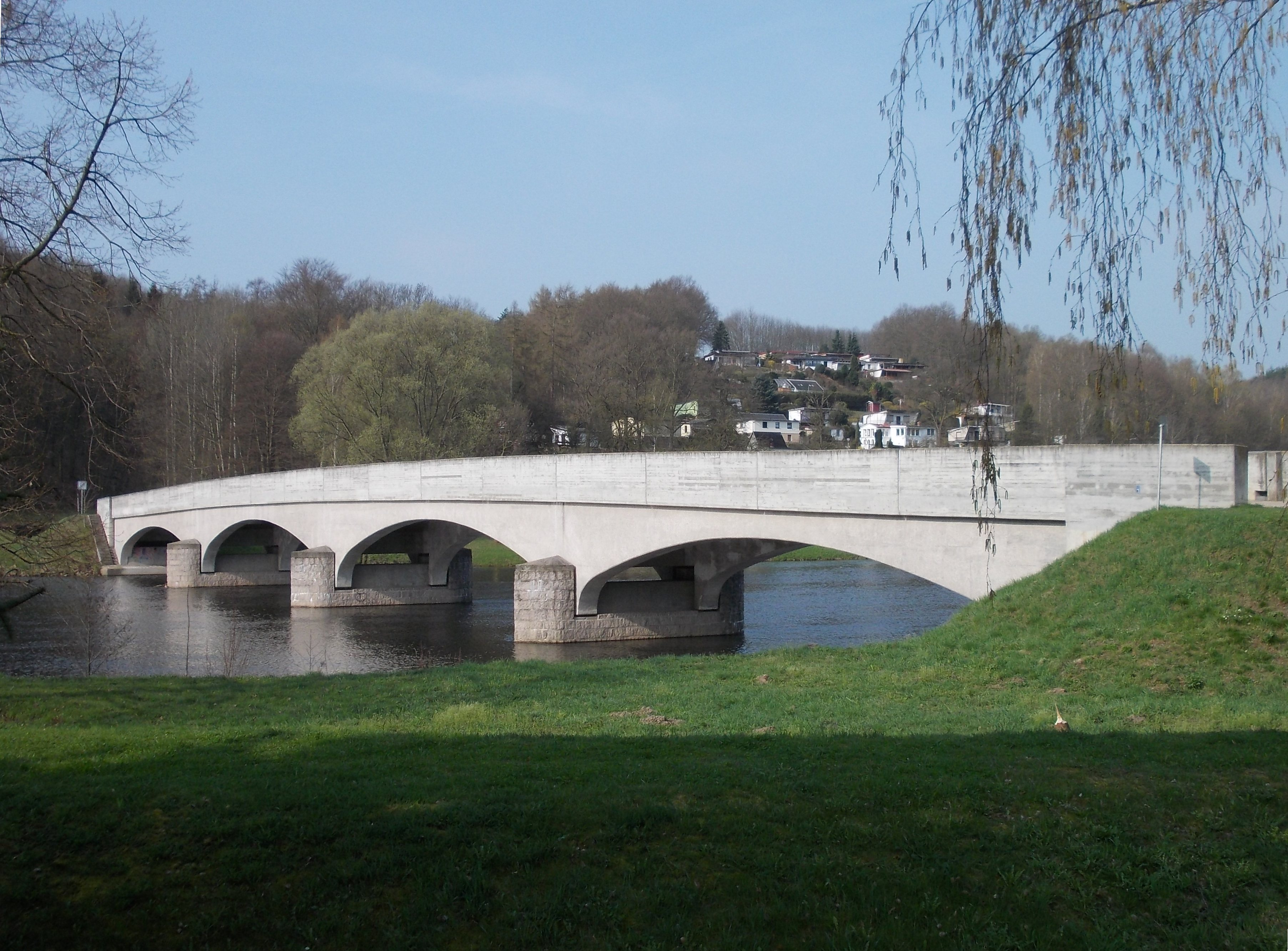 Bridge over the Freiberger Mulde river at Westewitz (Grossweitzschen, Mittelsachsen district, Saxony)